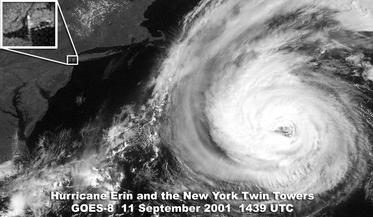 An eerie satellite image at 1439 UTC (1039 EDT) September 11, 2001 showing both the World Trade Centers and Hurricane Erin